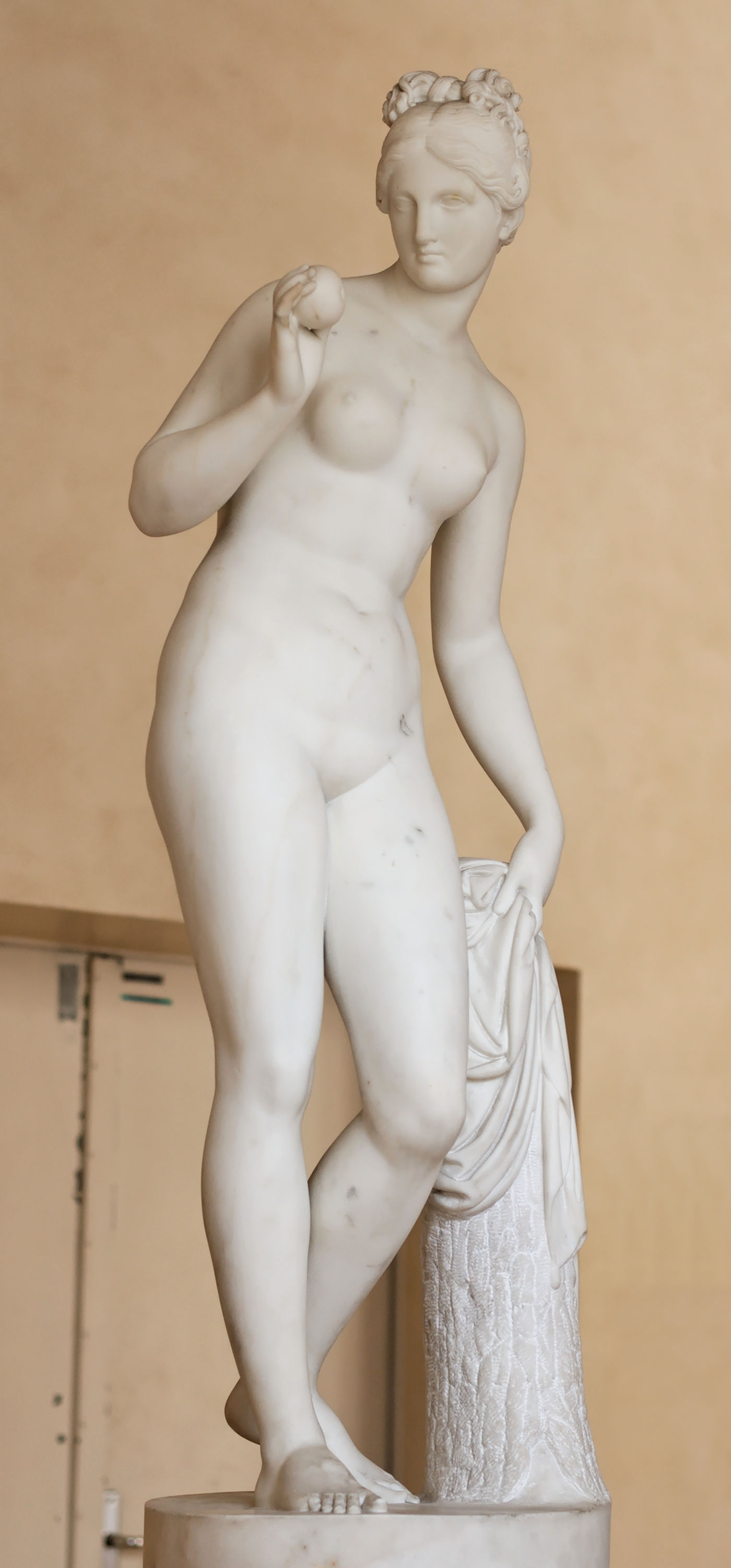 Venus with apple, second version of the subject. Marble, ca. 1805.